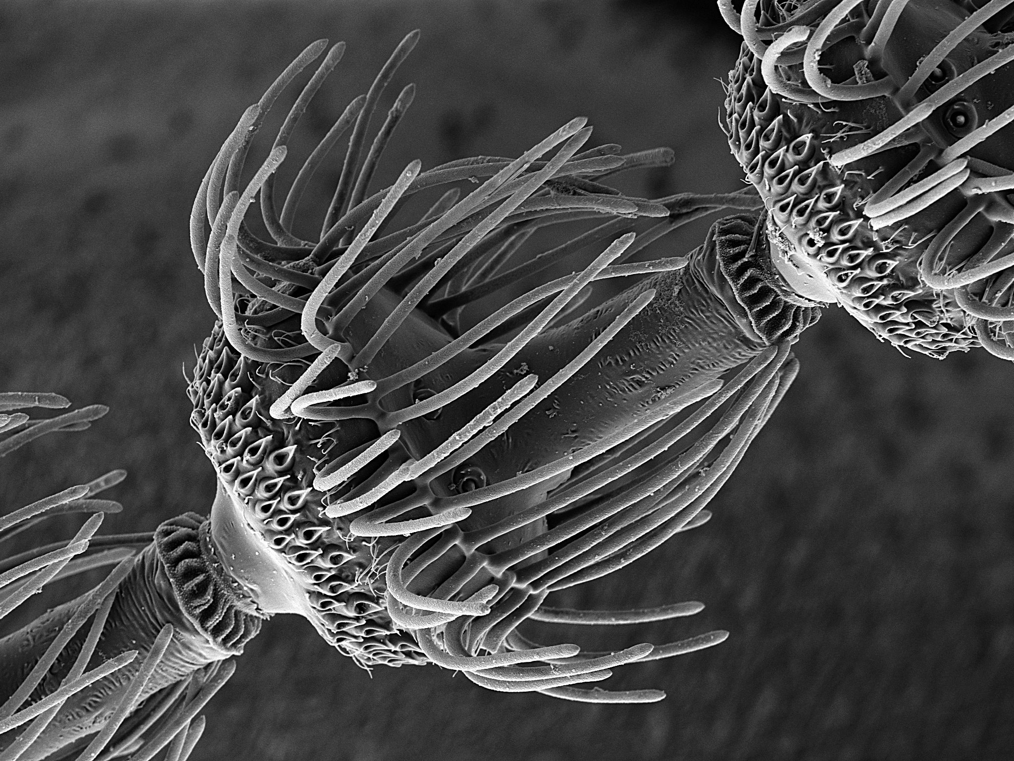 Drain flies, sink flies, filter flies, or sewer gnats (Psychodidae) are small true flies (Diptera) with short, hairy bodies and wings giving them a "furry" moth-like appearance, hence one of their common names, moth flies.